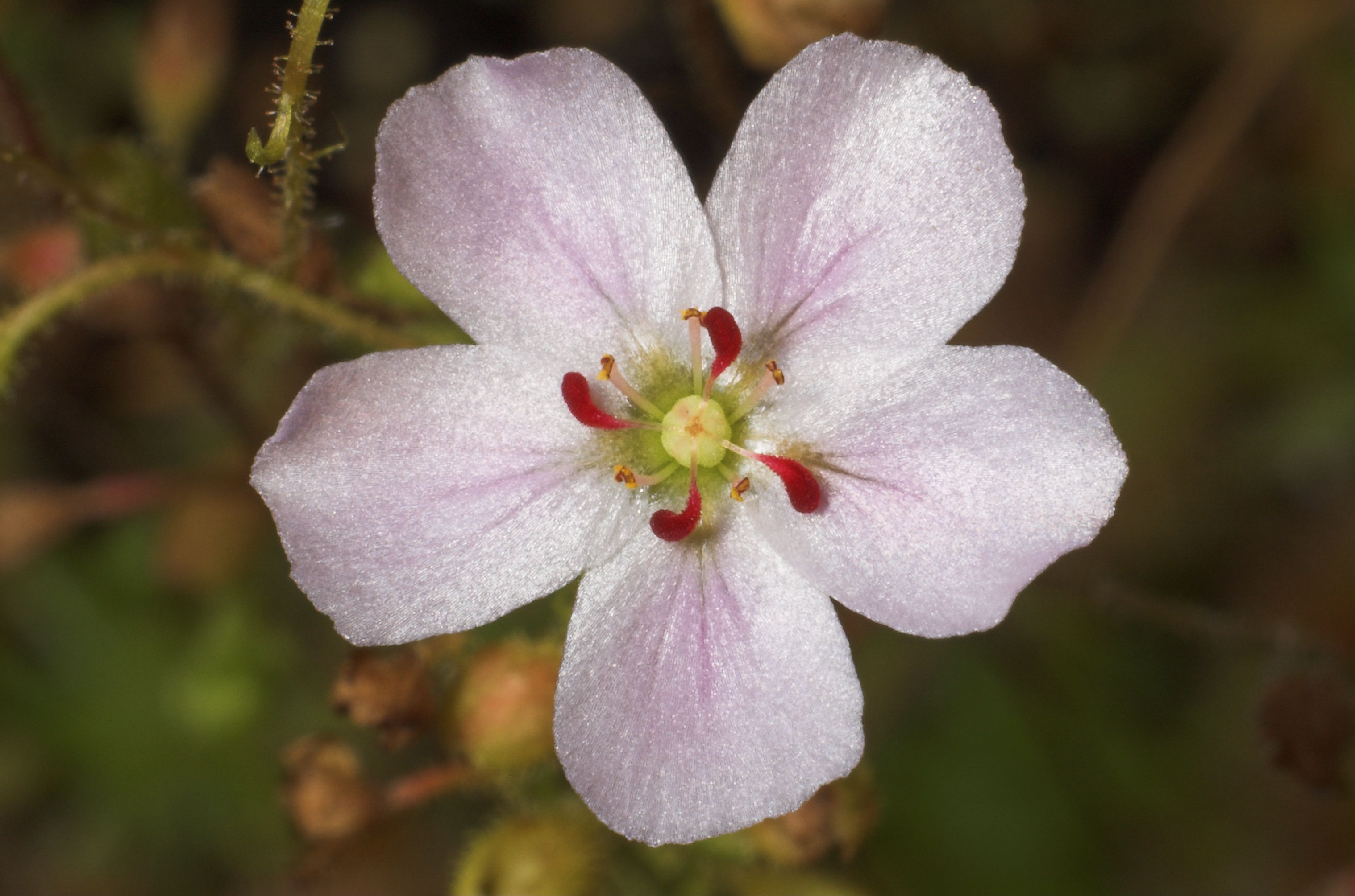 Drosera omissa × Drosera pulchella